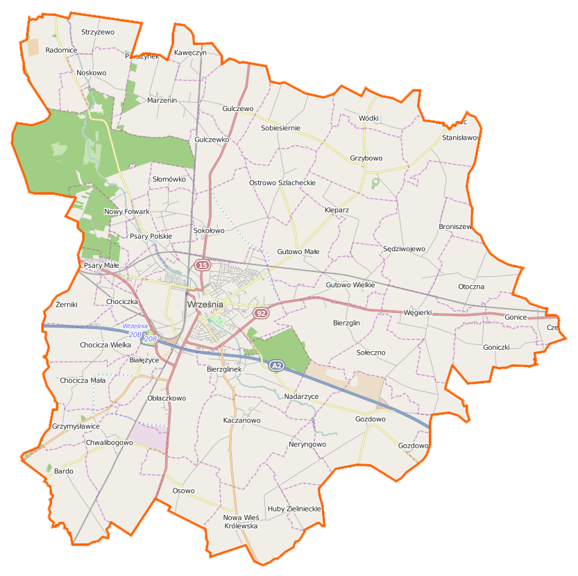 Map of Gmina Września, Poland This map of Września (gmina) was created from OpenStreetMap project data, collected by the community. This map may be incomplete, and may contain errors. Don't rely solely on it for navigation.